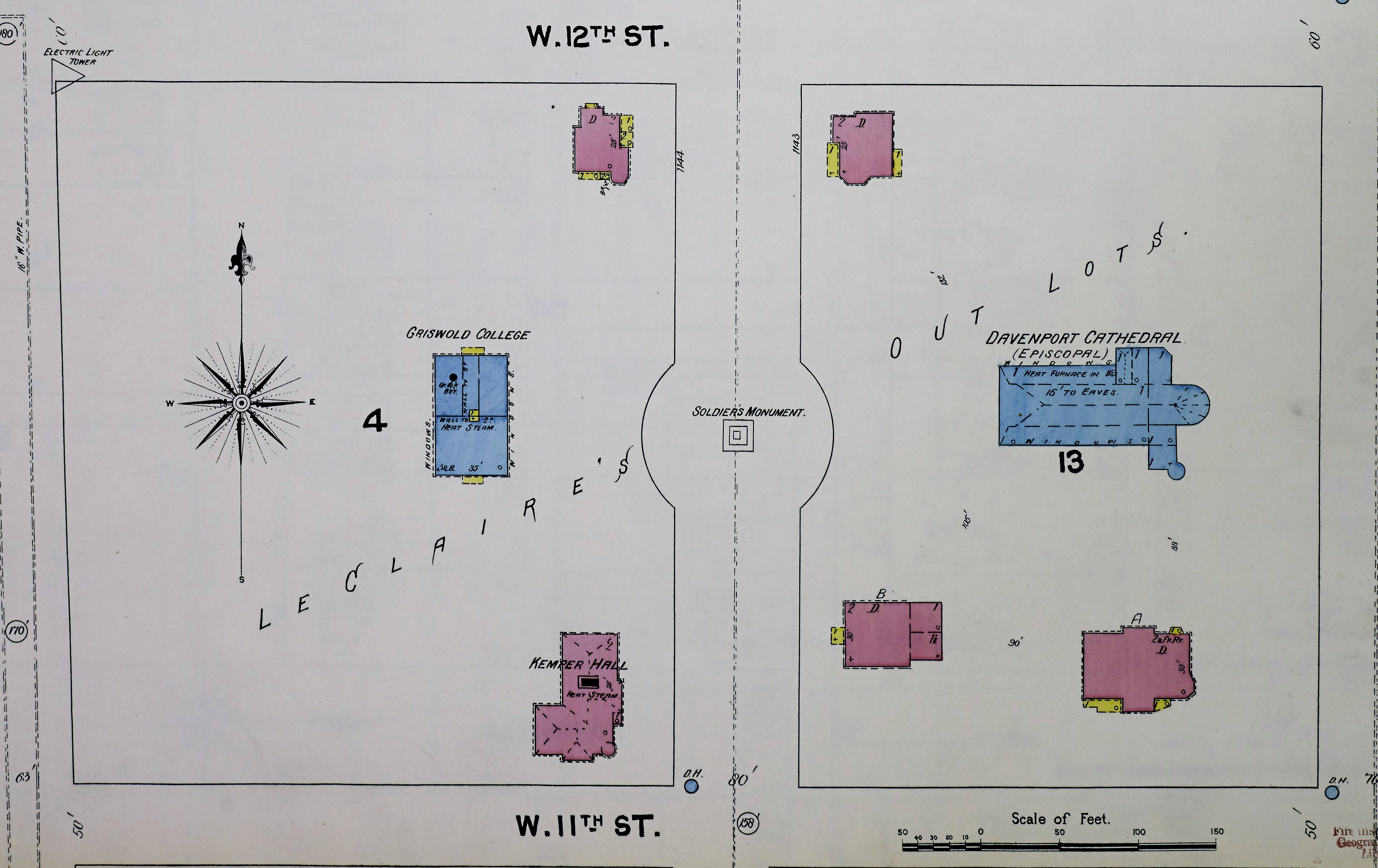 An 1892 Sanborn Fire Insurance Map cropped to show the property owned by the Episcopal Church in Davenport, Iowa, United States. Grace Catedral (blue), now known as Trinity Cathedral, is center right. The bishop's residence (pink) is below the cathedral and the dean's residence (pink) is below the cathedral and to the left. The remaining four buildings are part of Griswold College. Kemper Hall is the only college building that is extant. Central High School now owns the property across the street from the cathedral.